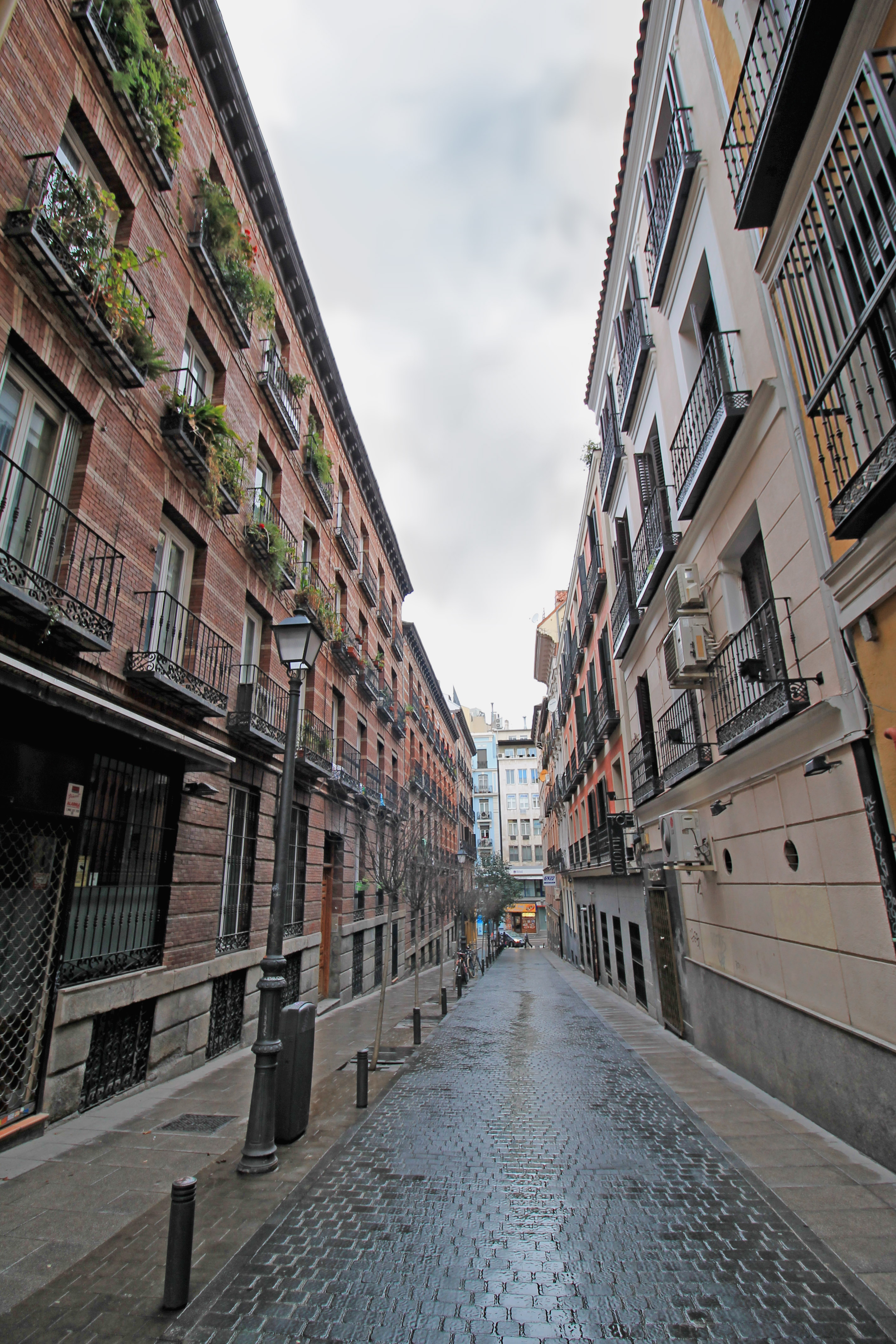 View from Calle del Marqués de Leganés (street) in Madrid (Spain).